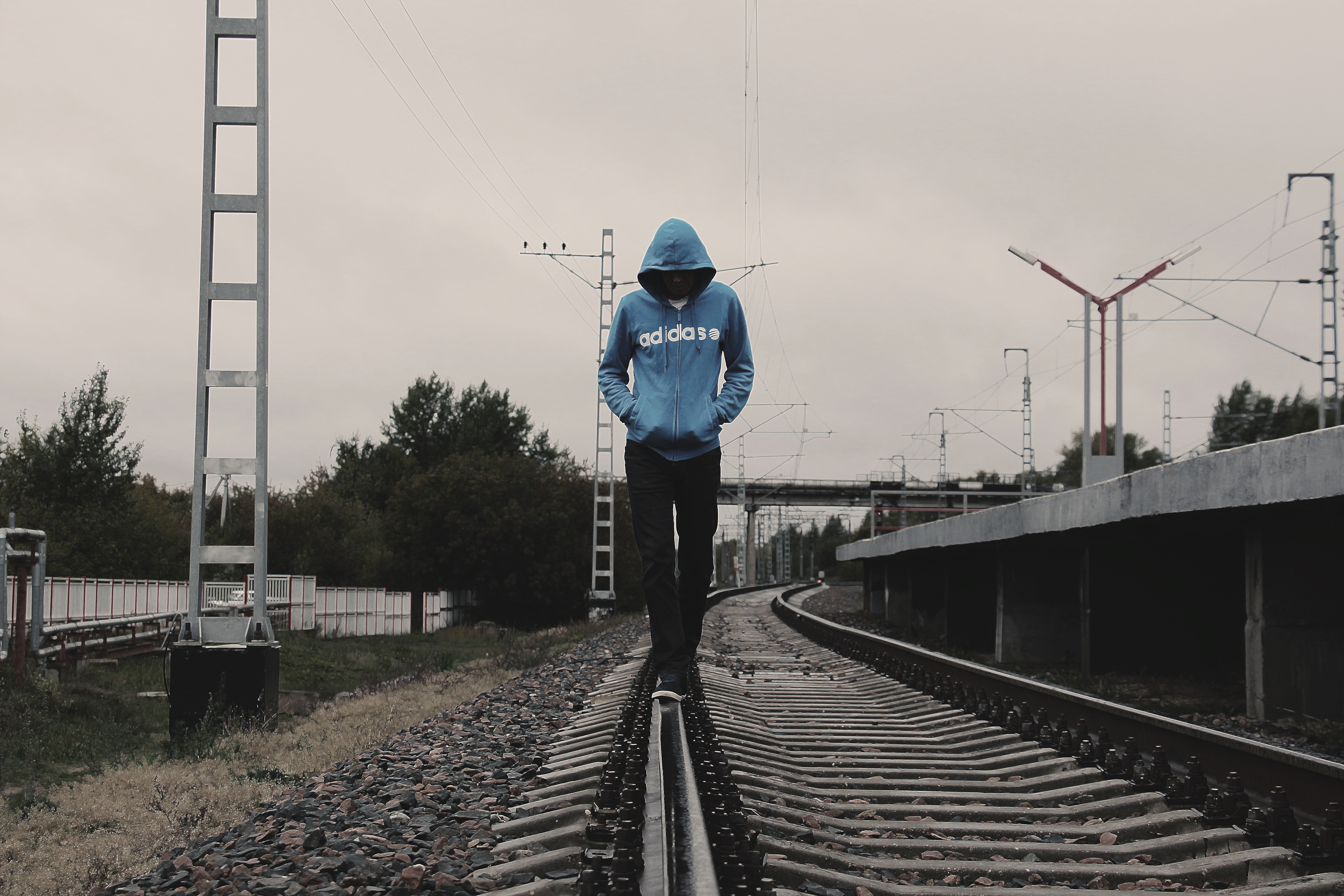 Walking man on Railway - searching for help to stop his addication